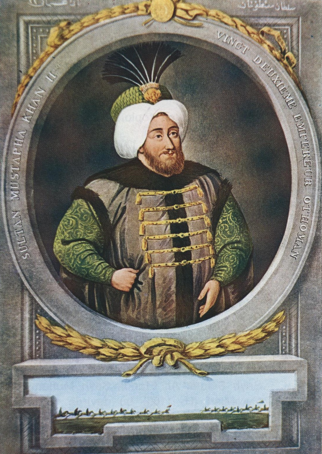 Mustafa II, 1695-1703 the Ottoman Sultan